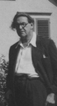 Karl Wolfskehl in Meilen in September 1935